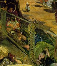 Detail of Work by Ford Madox Brown